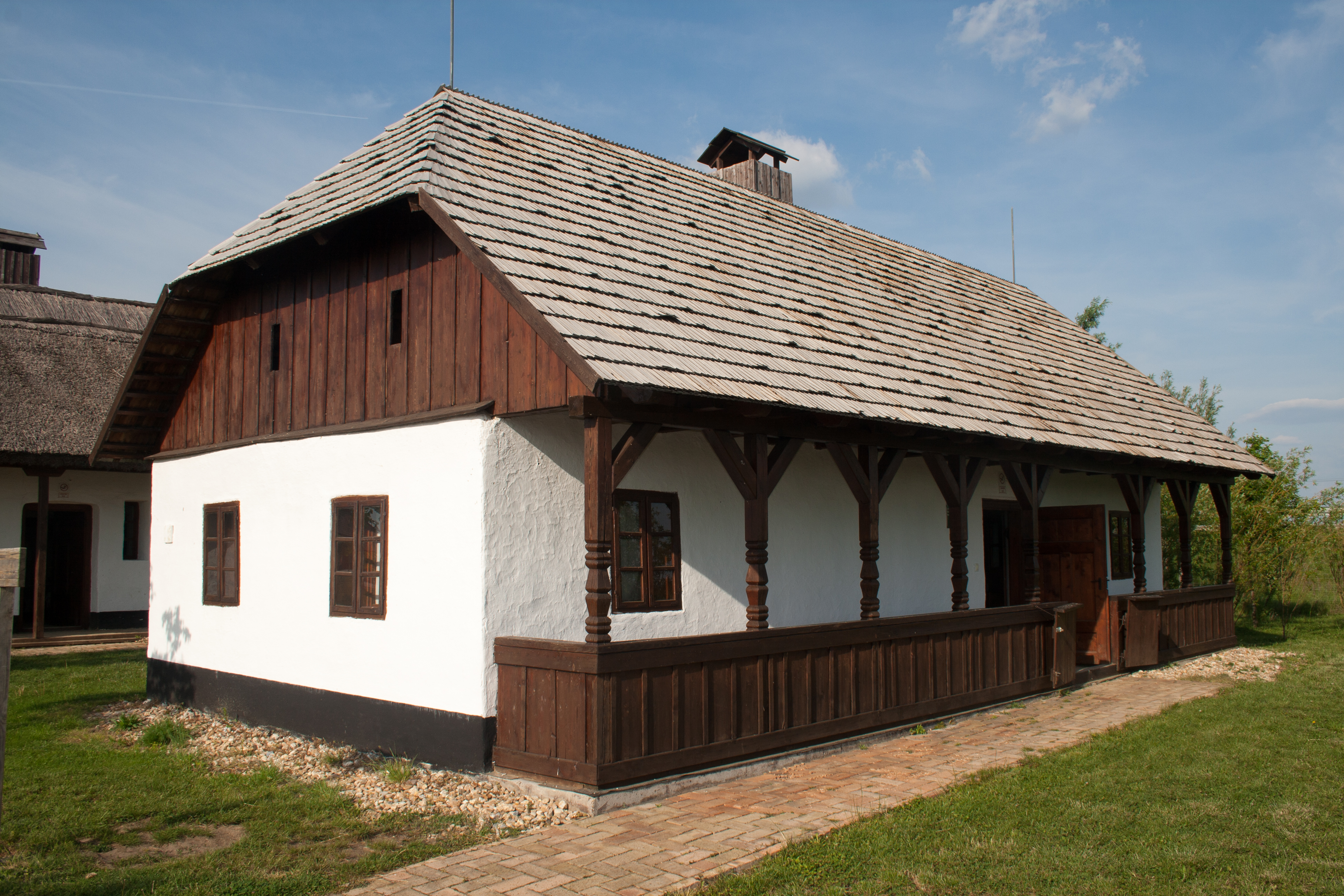 House from Bereg